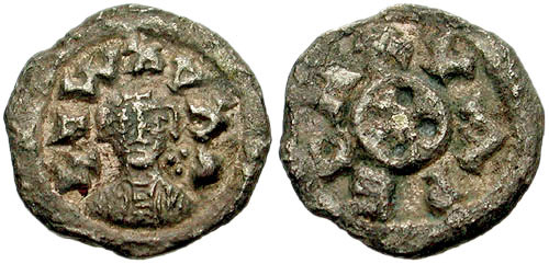 Coin of the Axumite king Ioel